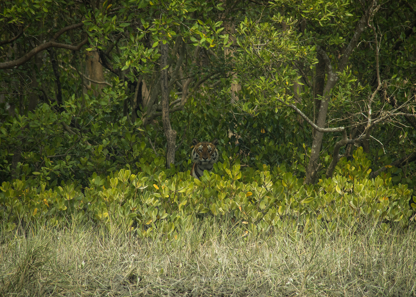 A royal bengal tiger in its natural habitat at sundarban